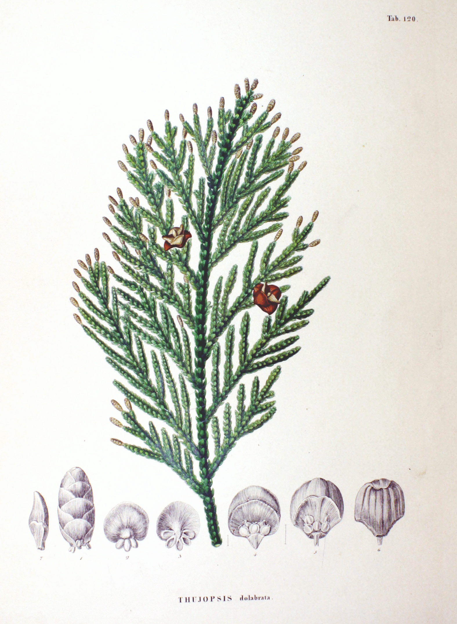 Plate from book